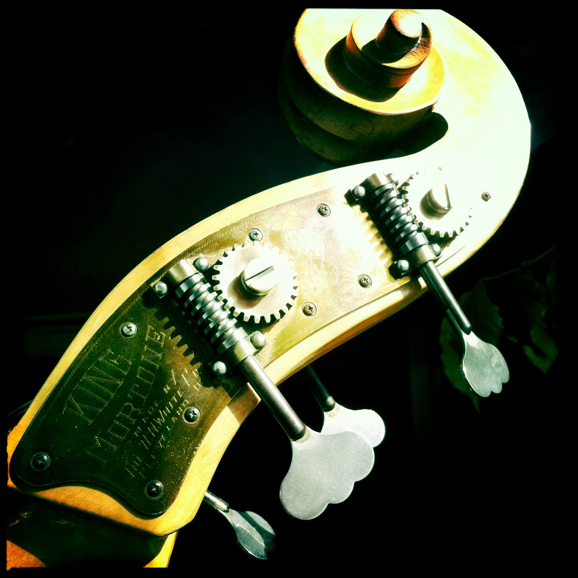 1957 King Mortone Headstock showing the distinctive engraved brass plate tuning machines and optional blonde finish.